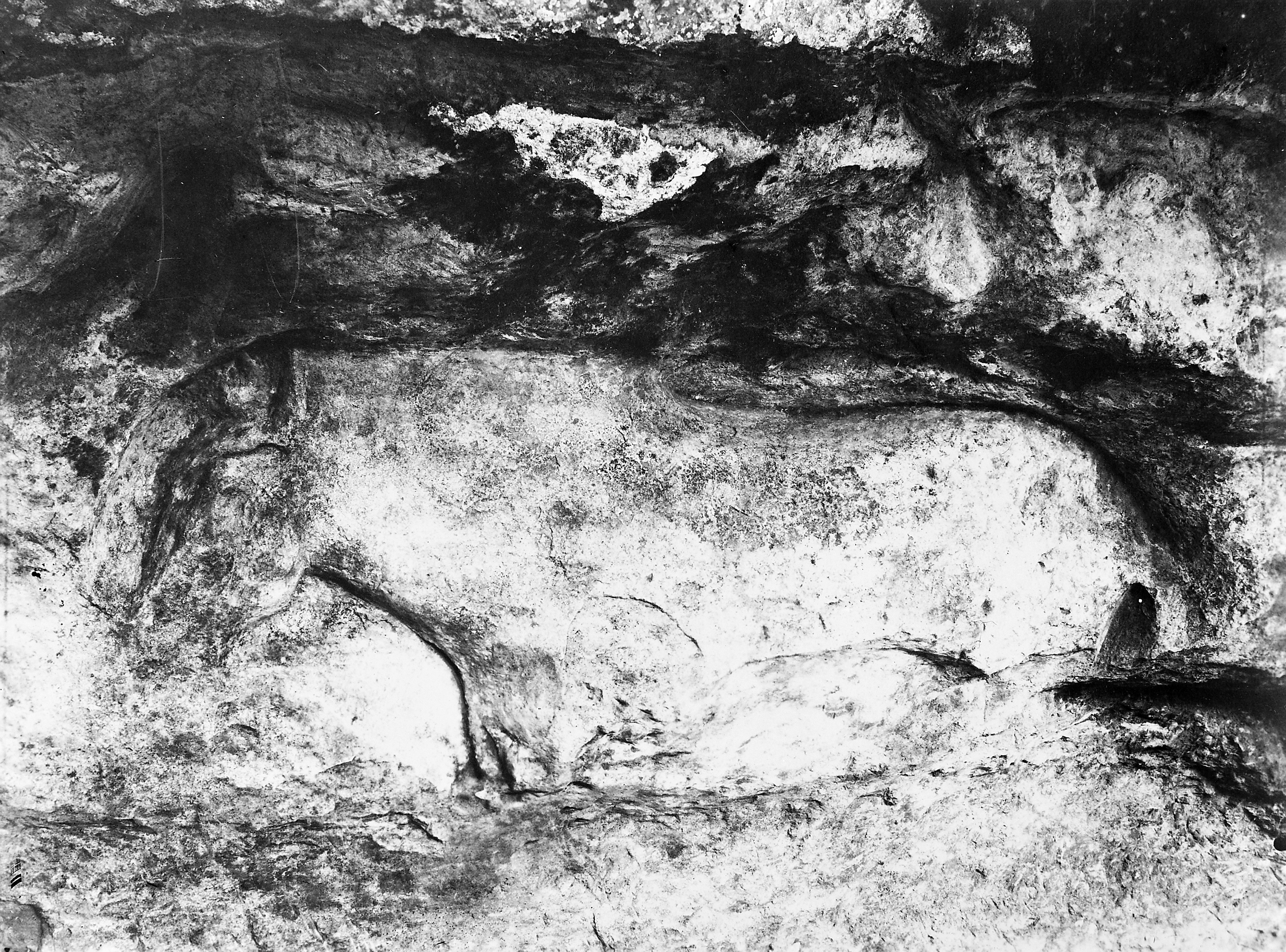 High releif carving of horse on rock shelter wall, Cap Blanc, Marquay (Dordogne). Wellcome Images Keywords: prehistoric art; Archaeology; Lalanne